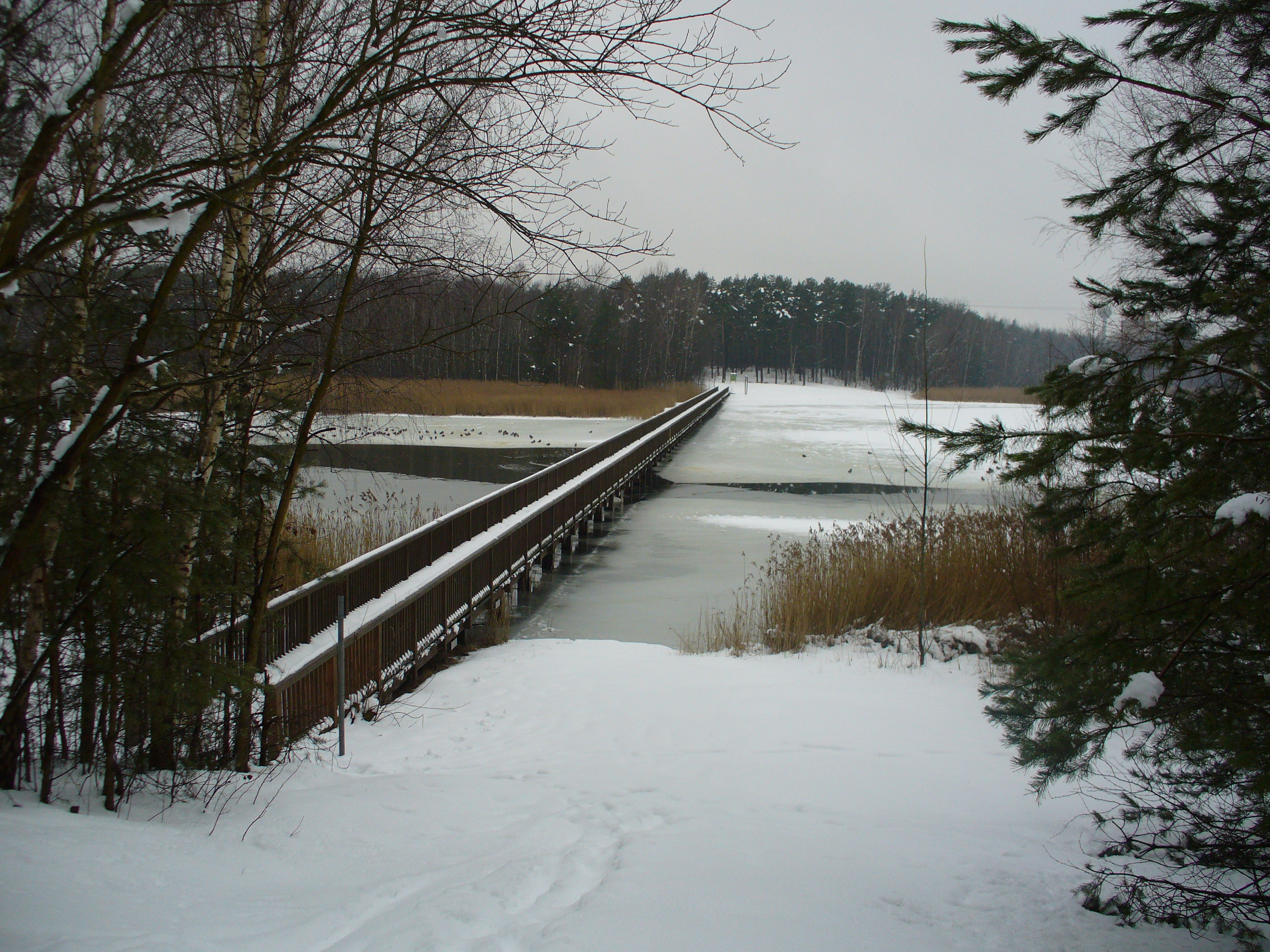 Braunsteich in Weißwasser